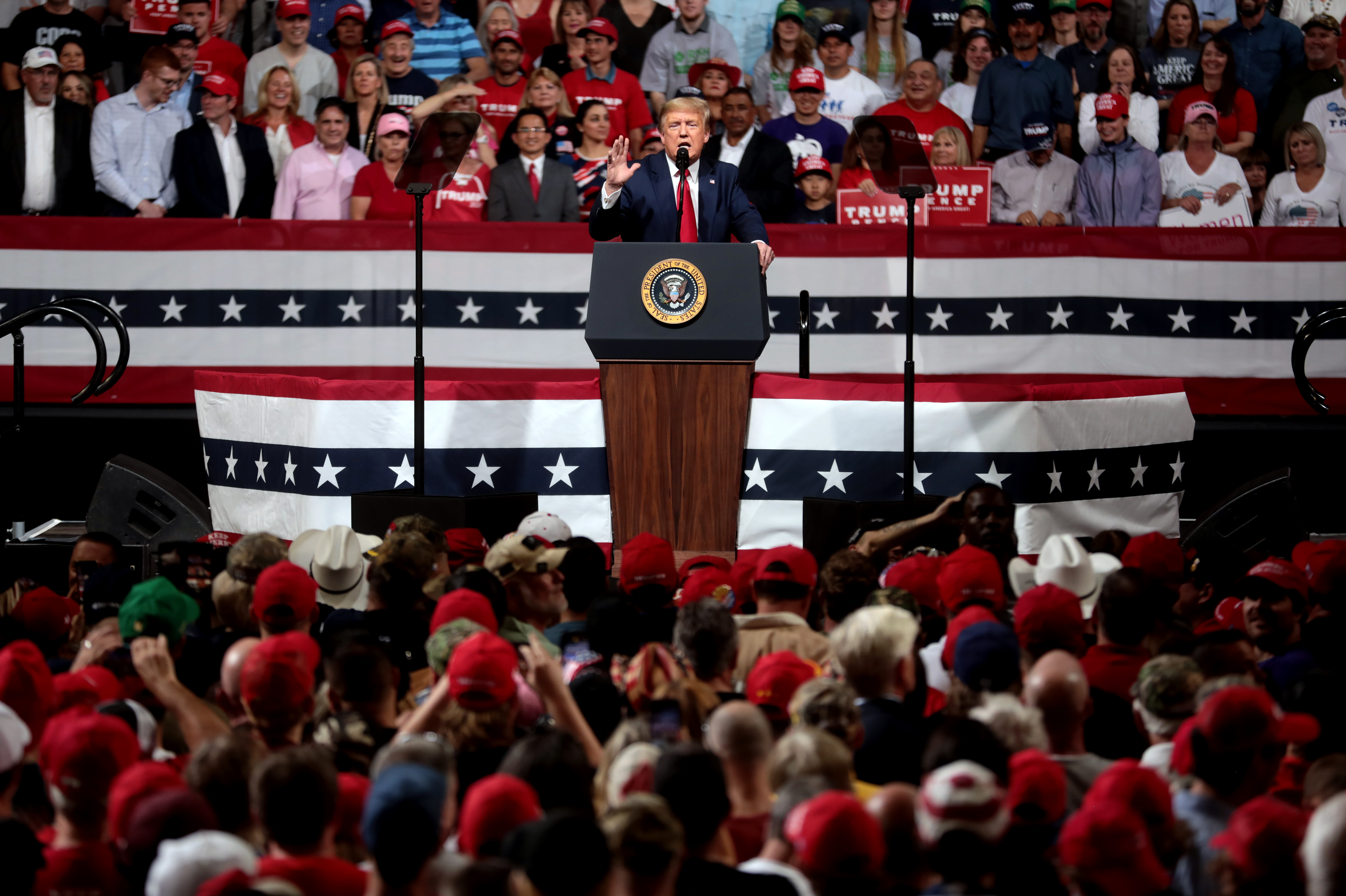 President of the United States Donald Trump speaking with supporters at a "Keep America Great" rally at Arizona Veterans Memorial Coliseum in Phoenix, Arizona.